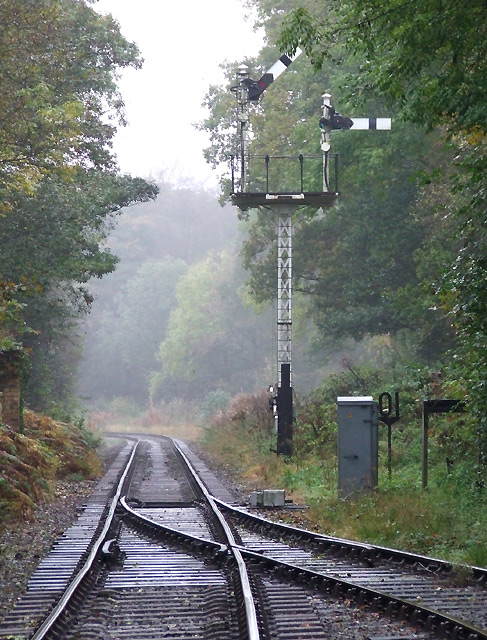 Churnet Valley Railway at Consall Forge, Staffordshire The train which is signalled to be arriving actually passed about fifteen minutes later, heading in this direction towards Cheddleton.